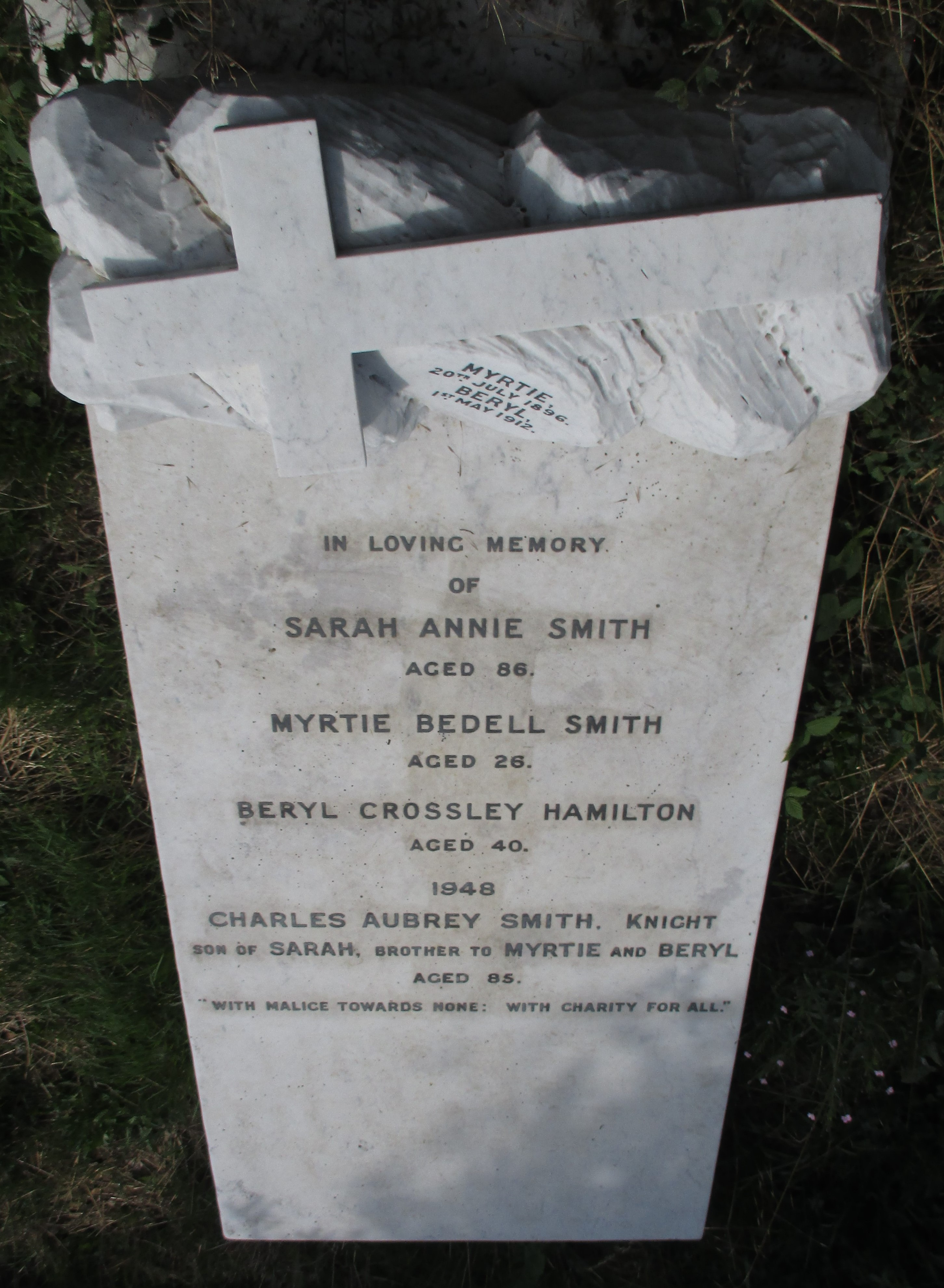 The gravestone of the cricketer and actor C. Aubrey Smith and his mother, brother and sister, in the churchyard of St Leonard's Church, Aldrington, in Brighton and Hove.